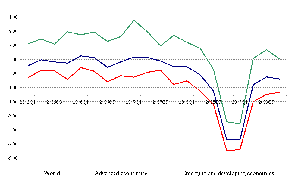 Annualized quarter over quarter world GDP growth (percent). I drew the figure my-self. The draw data source provided by IMF